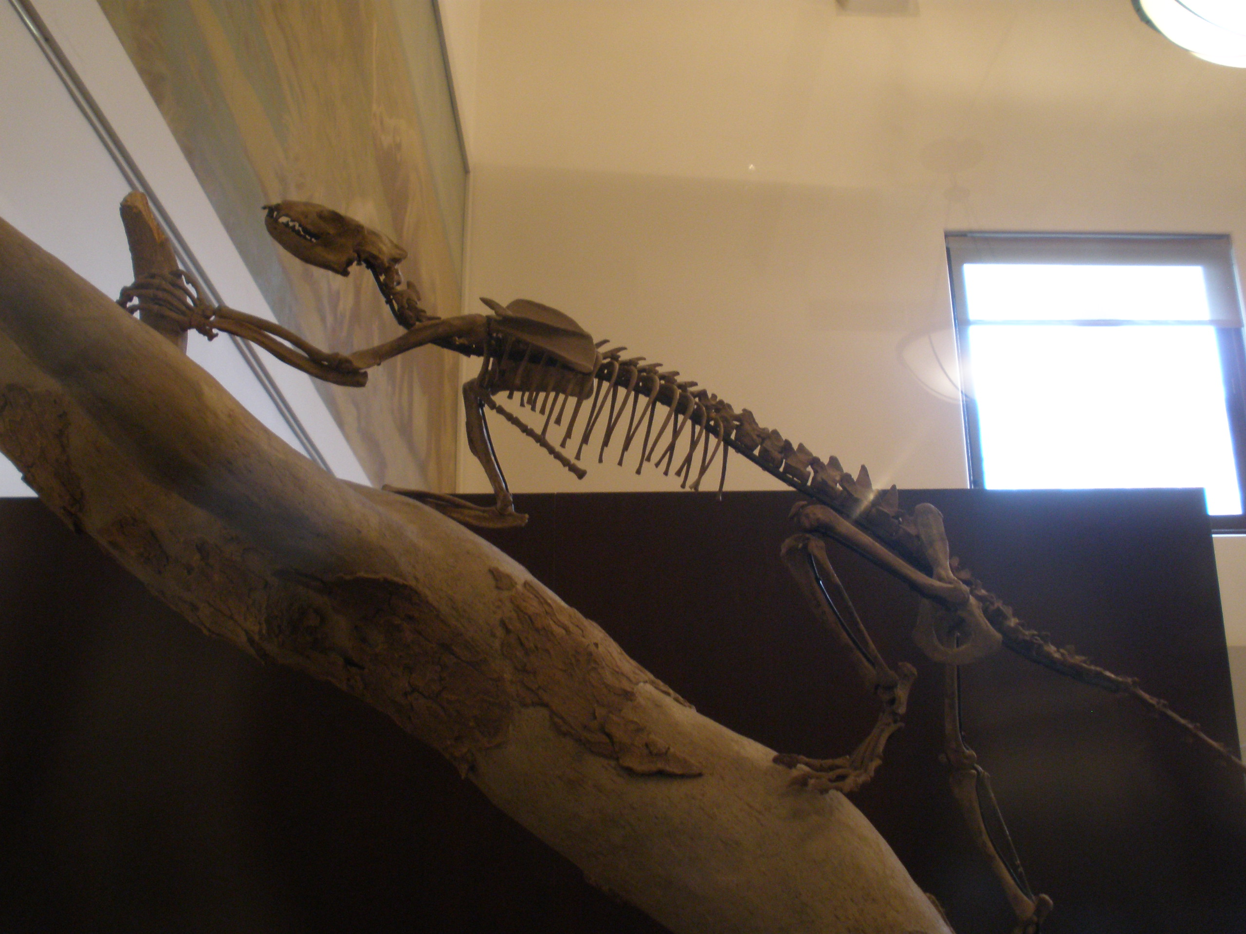 fossil of Vulpavus, an extinct carnivoran